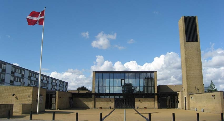 Strandmarkskirken, Hvidovre, Denmark 2012